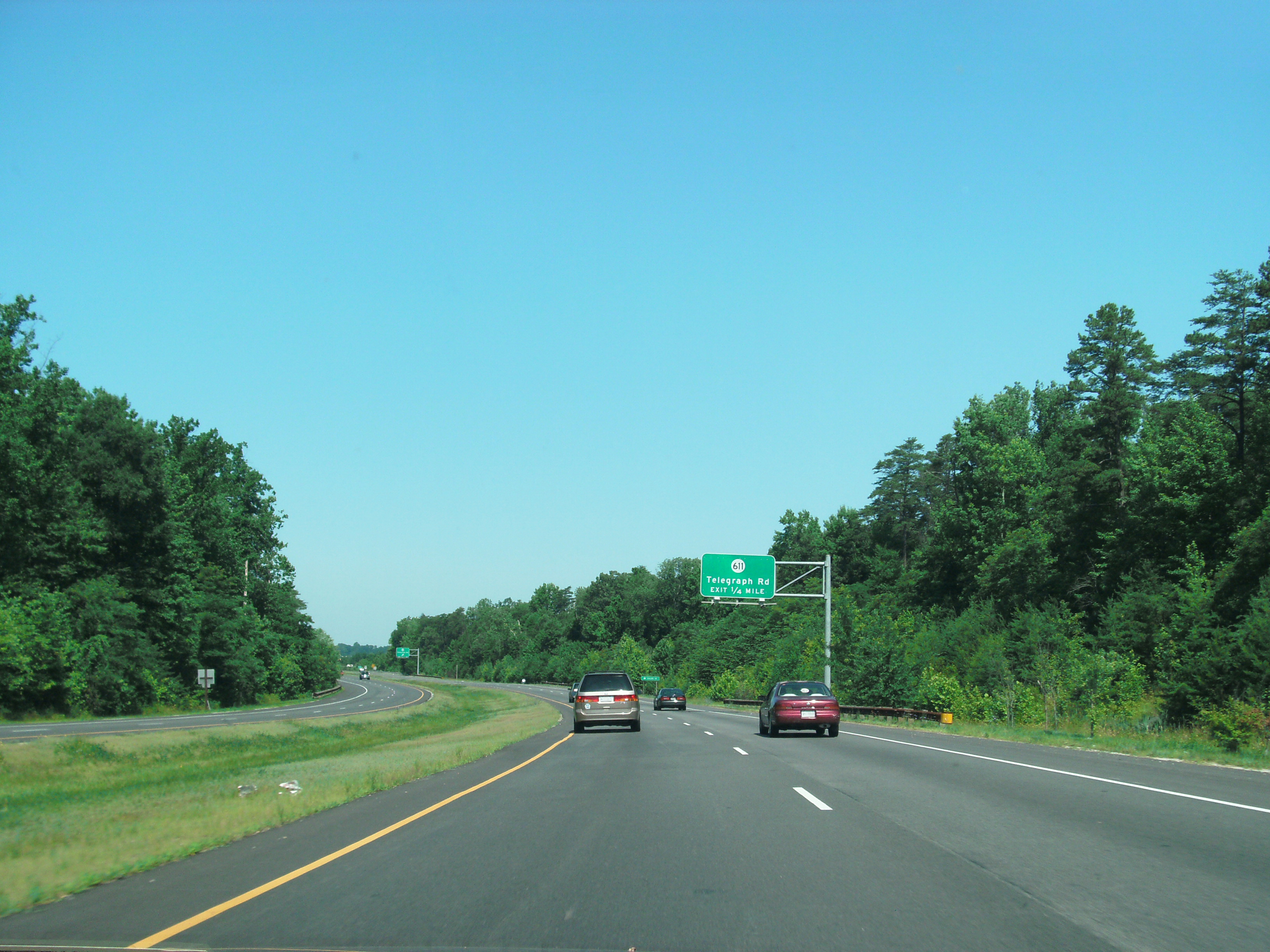 Fairfax County Parkway near its beginning, on Fort Belvoir property